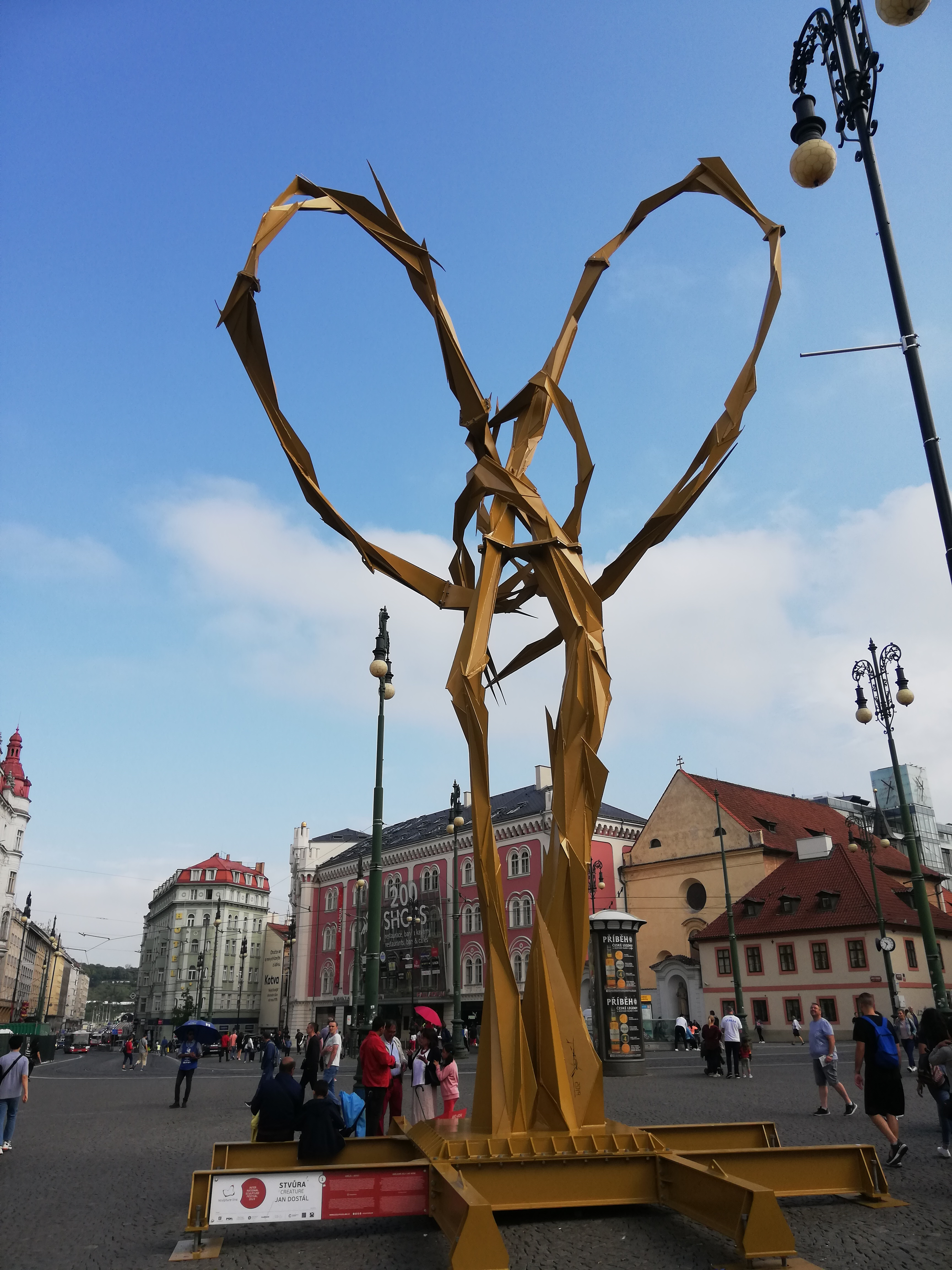 „Creature“ is a sculpture exhibited in public space in Prague on the Republic Square (Náměstí Republiky, Prague - GPS coordinates: 50.08825, 14.42874) as part of the International sculpture festival „Sculpture Line 2019“. Author: sculptor Jan Dostál (* 1992); Height: 12 m; Material: welded pieces of sharp iron (steel)